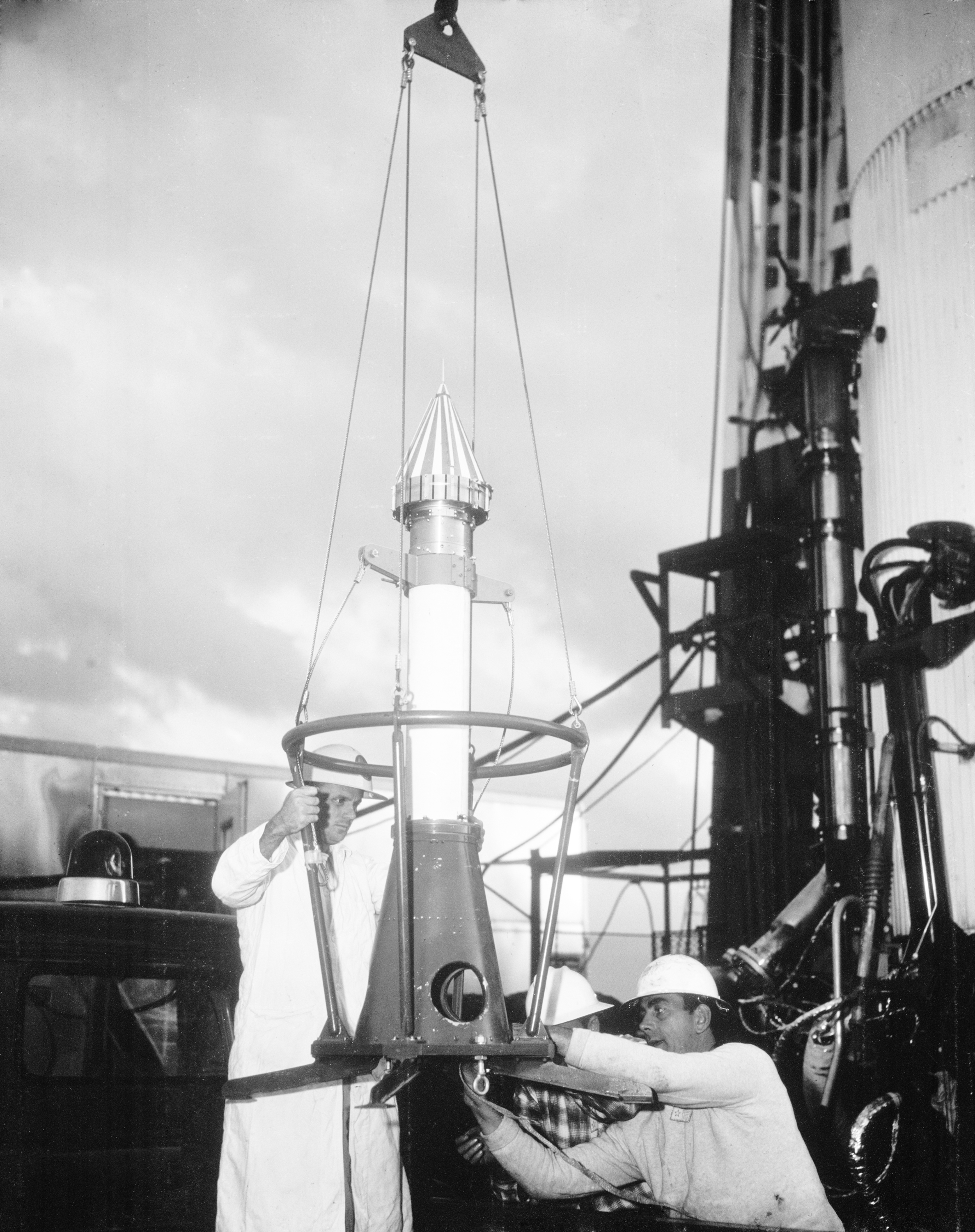 Pioneer 3 is being prepared for installation to Juno II launch vehicle. AM-11 was launched on December 5, 1959, but the mission was unsuccessful.